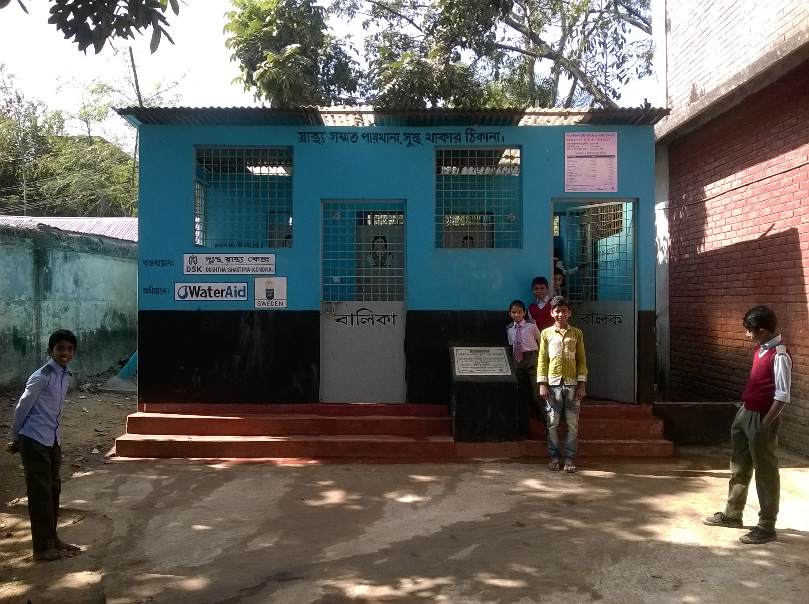 Photos taken for this report: . See also here: by Jacques-Edouard Tiberghien in 2016